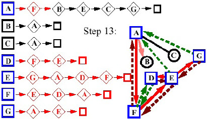 Dry run Depth-first search Algorithm in Graph, step 13